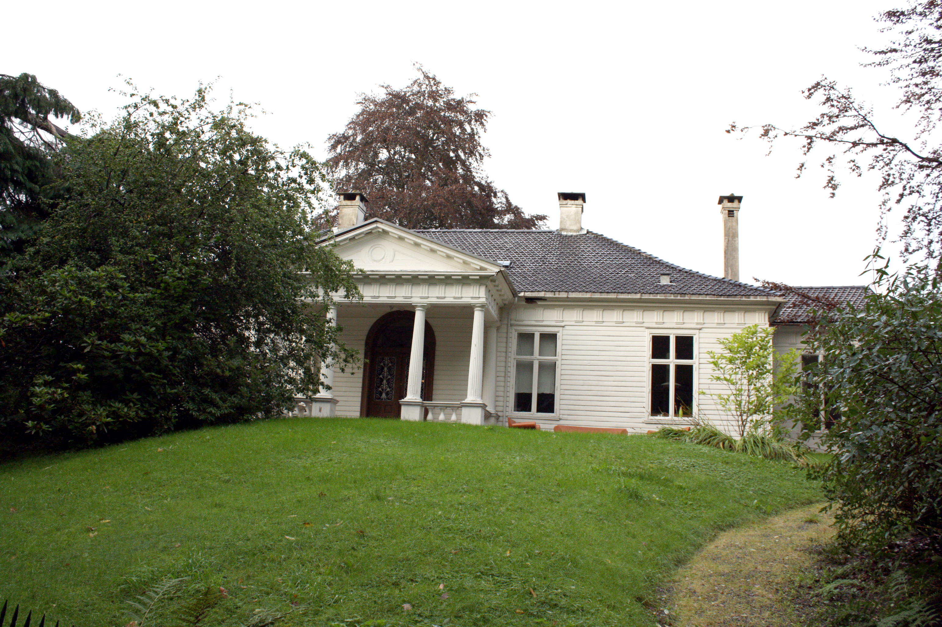 Wernersholm, Fana, Bergen. The building where Bjørnstjerne Bjørnson wrote "Ja, vi elsker", the Norwegian national hymn.